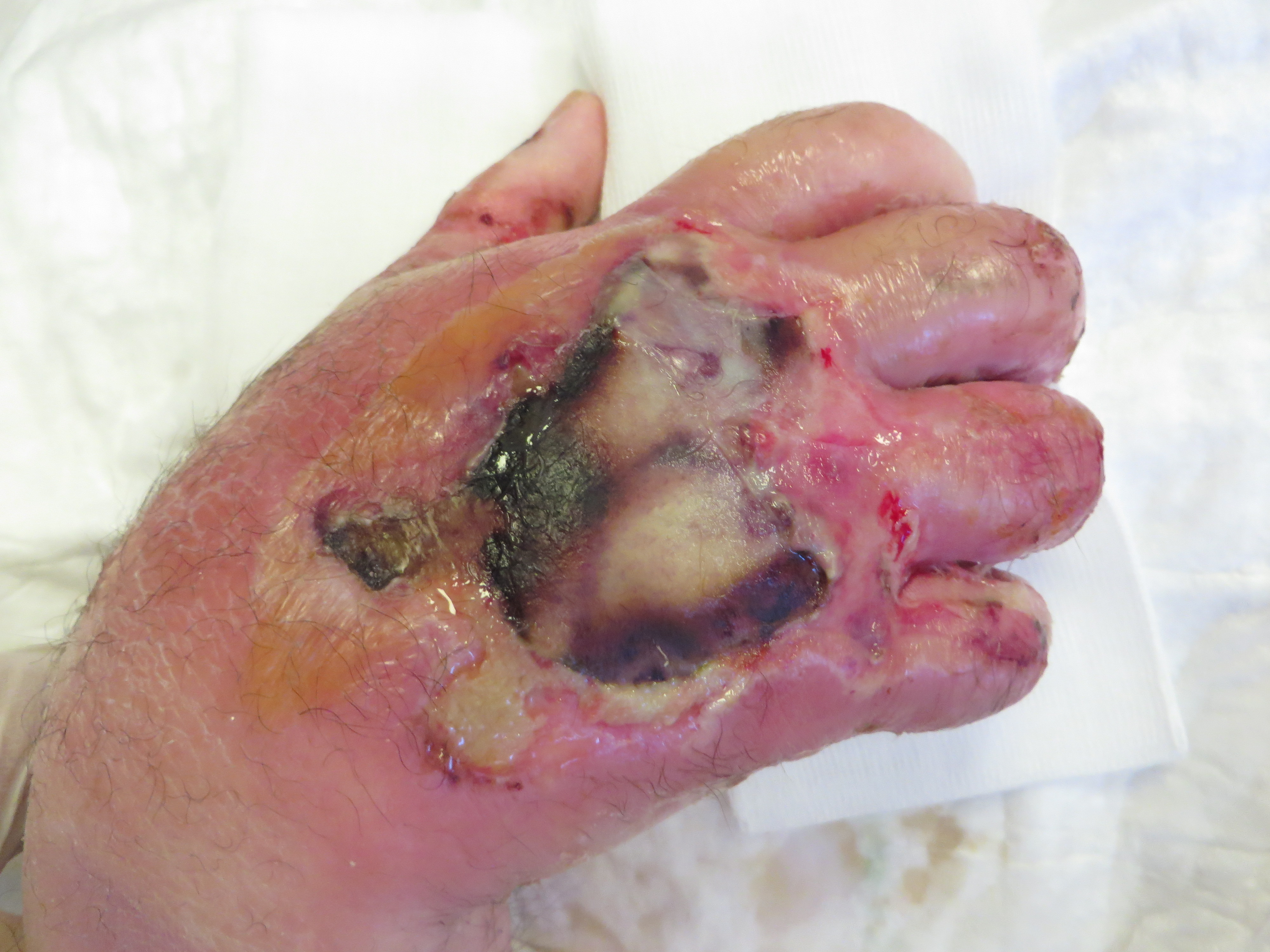 Crush syndrome of right hand with necrotic tissues, bullosis and fibrosis.